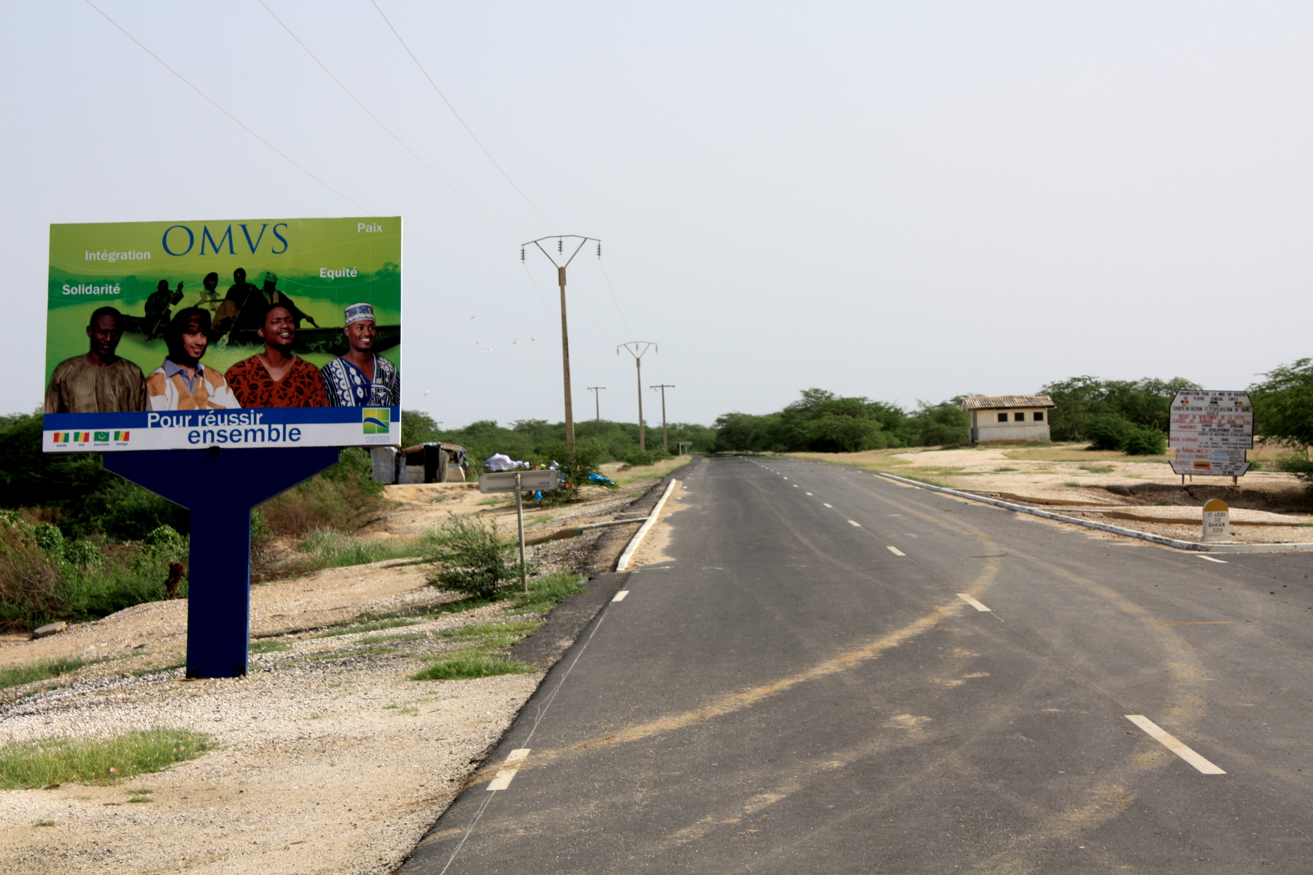 OMVS advertisement